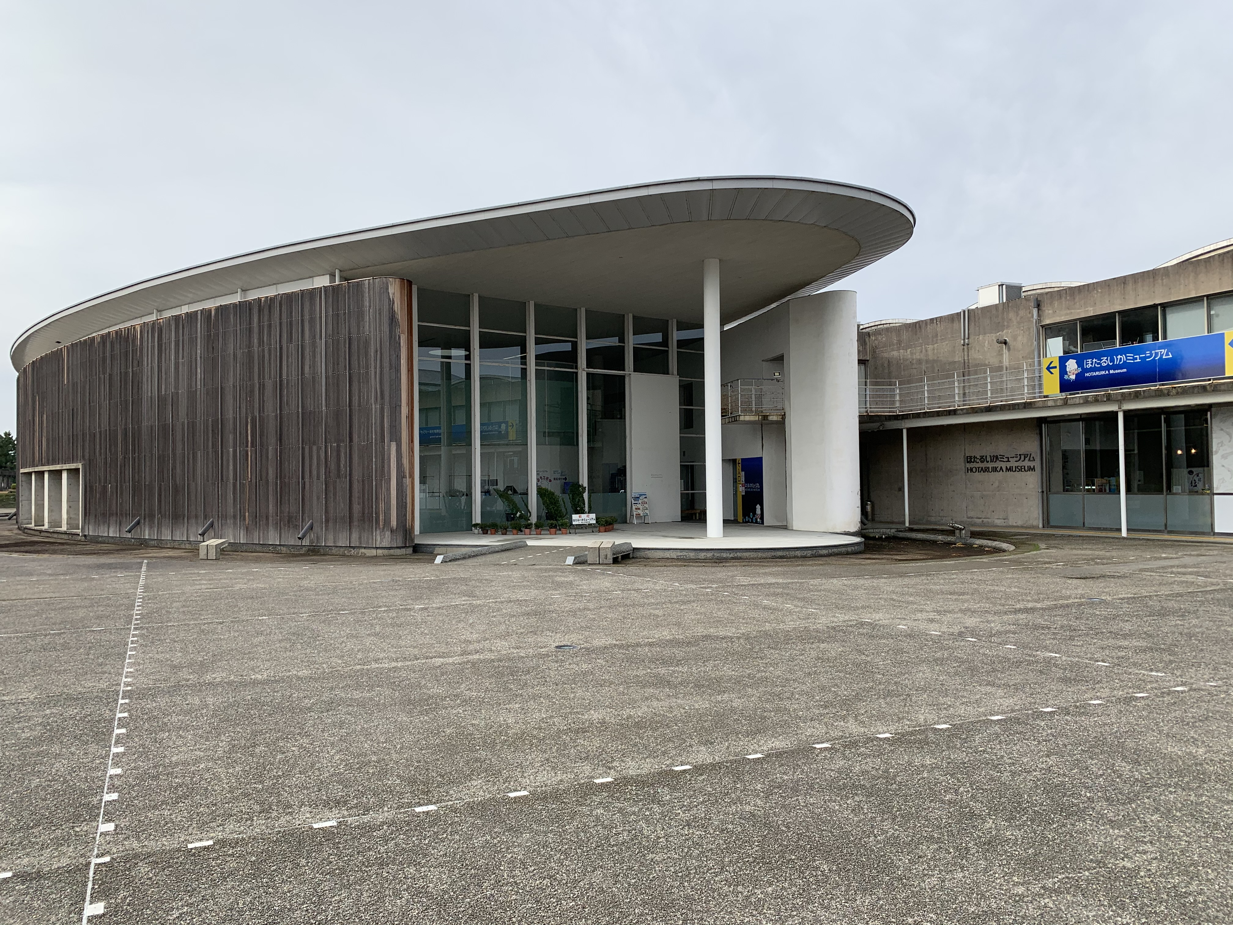 Hotaruika Museum (museum for watasenia scintillans) at Michinoeki Wave Park Namerikawa in Namerikawa City, Toyama Prefecture, Japan